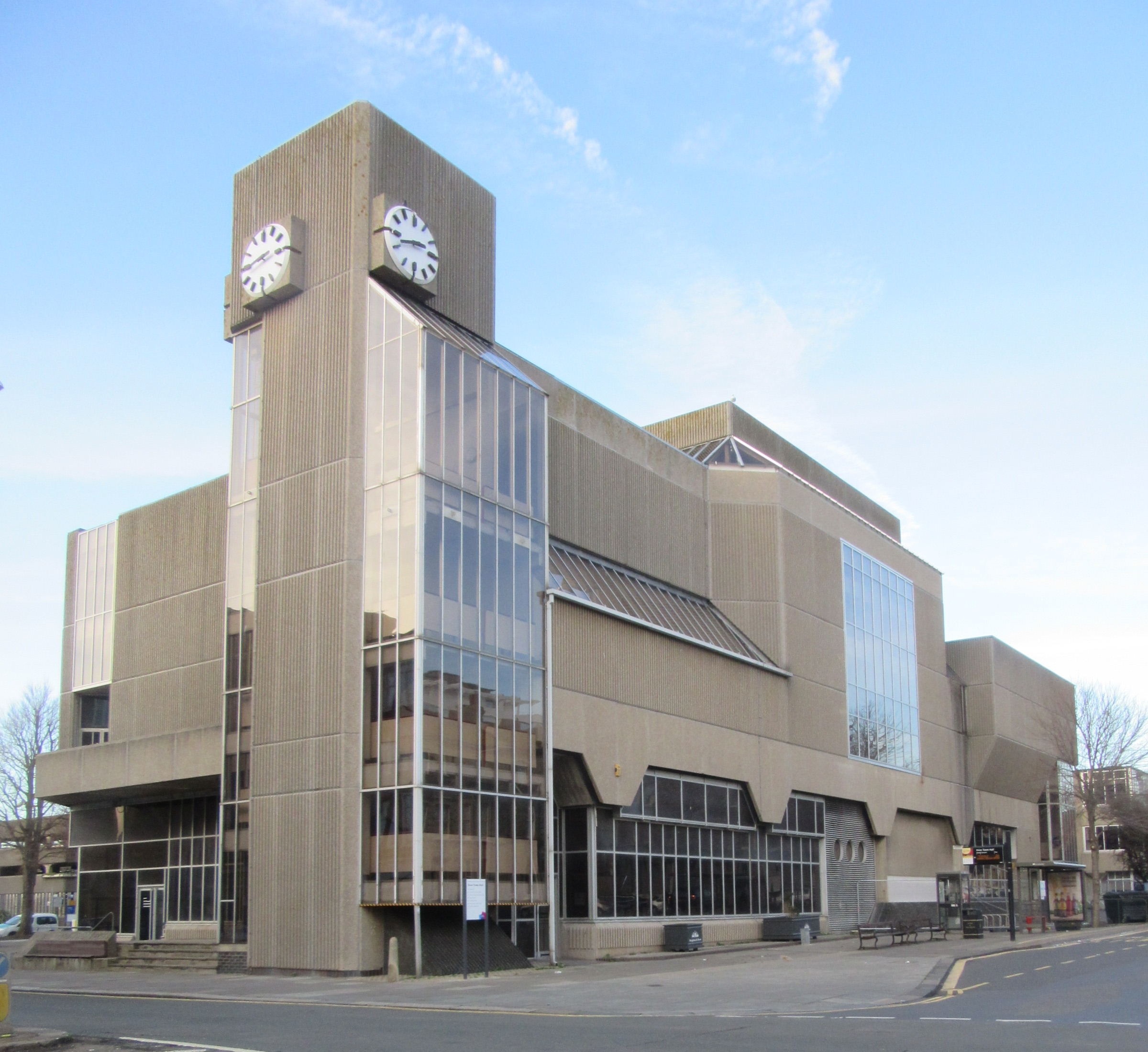 Hove Town Hall, junction of Tisbury Road, Norton Road and Church Road, Hove, City of Brighton and Hove, England. Hove's original town hall burnt down on 9 January 1966. Its replacement was built in the Brutalist style to the design of John Wells-Thorpe at a cost of approximately £2m and opened on 5 March 1974. It is on Brighton and Hove City Council's Local List of Heritage Assets, as is the clock tower at the south end.